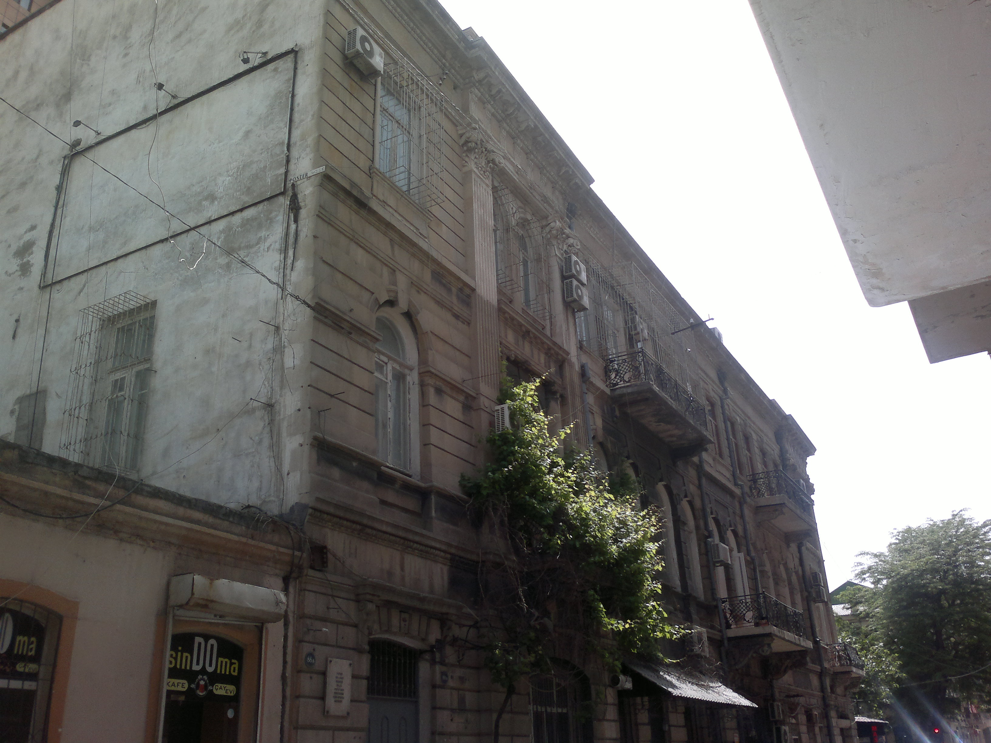 Building in Baku where secret meeting of communists were hel in May 1919. Built in 1900.